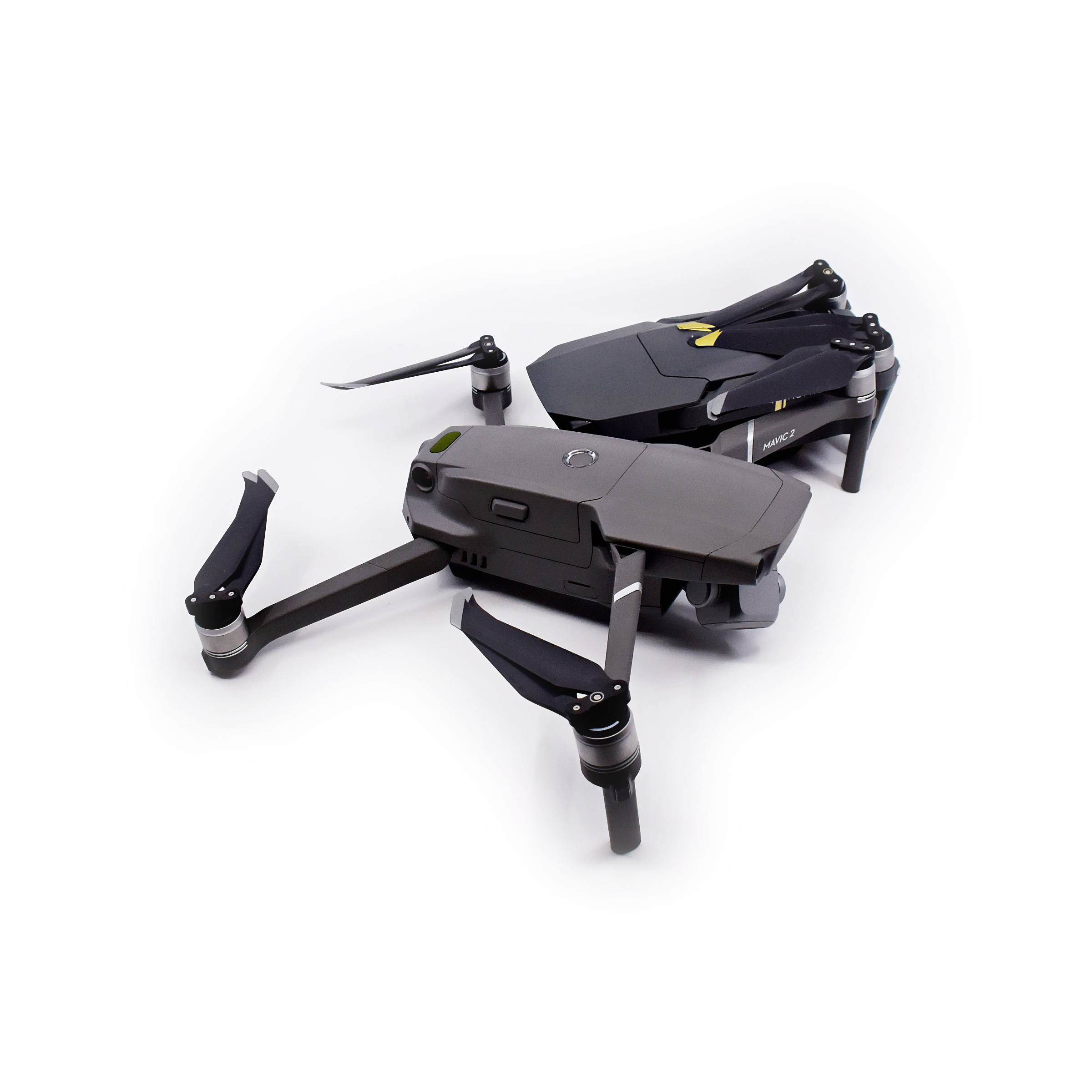 The Mavic 2 Pro from DJI.